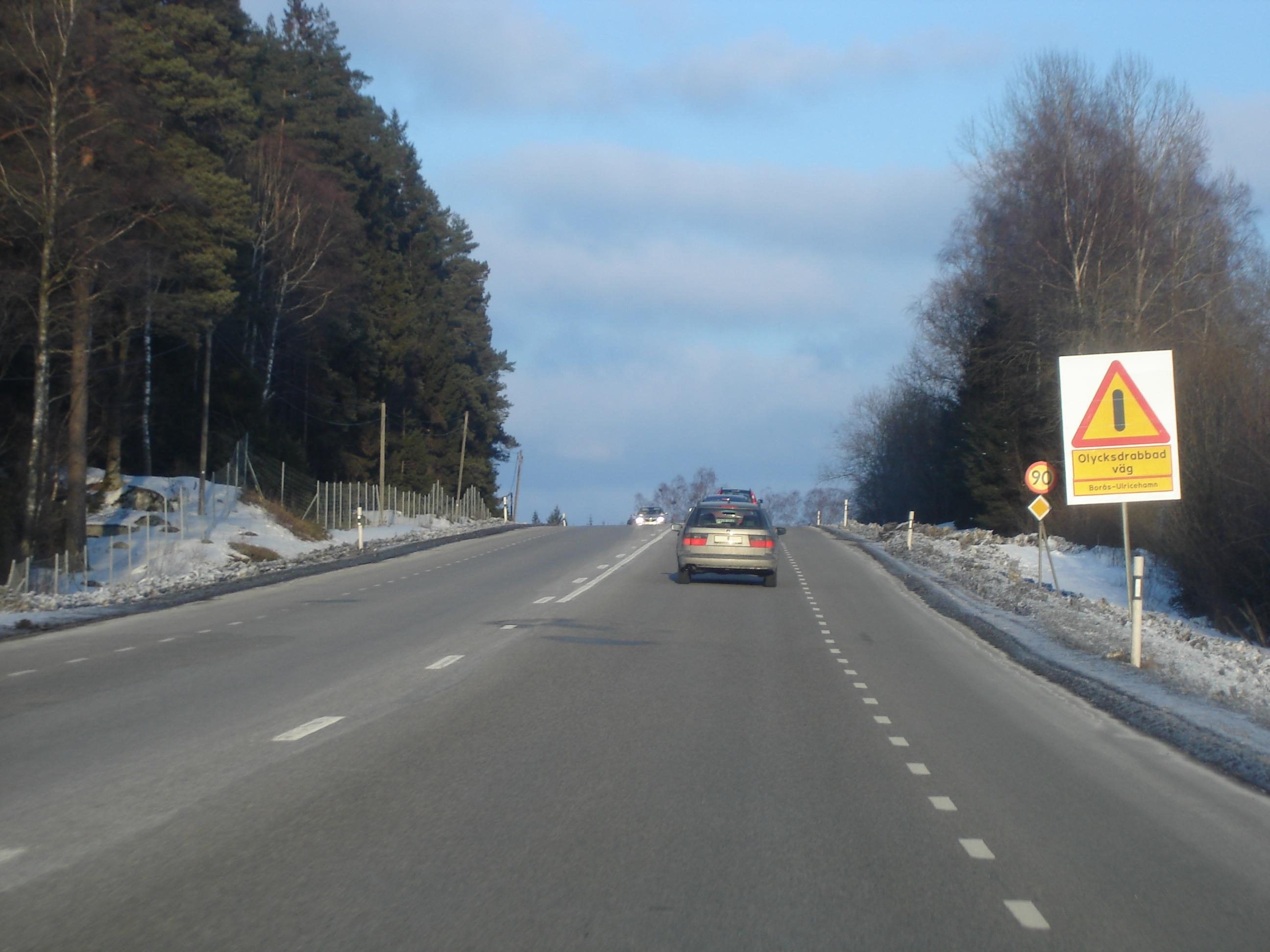 National Road 40 (Riksväg 40) between Borås and Ulricehamn in Sweden. Photo: Sebbe (User:Sebbe) 2006-03-11 Note that a new road number 40 has been opened instead of this one after this date.